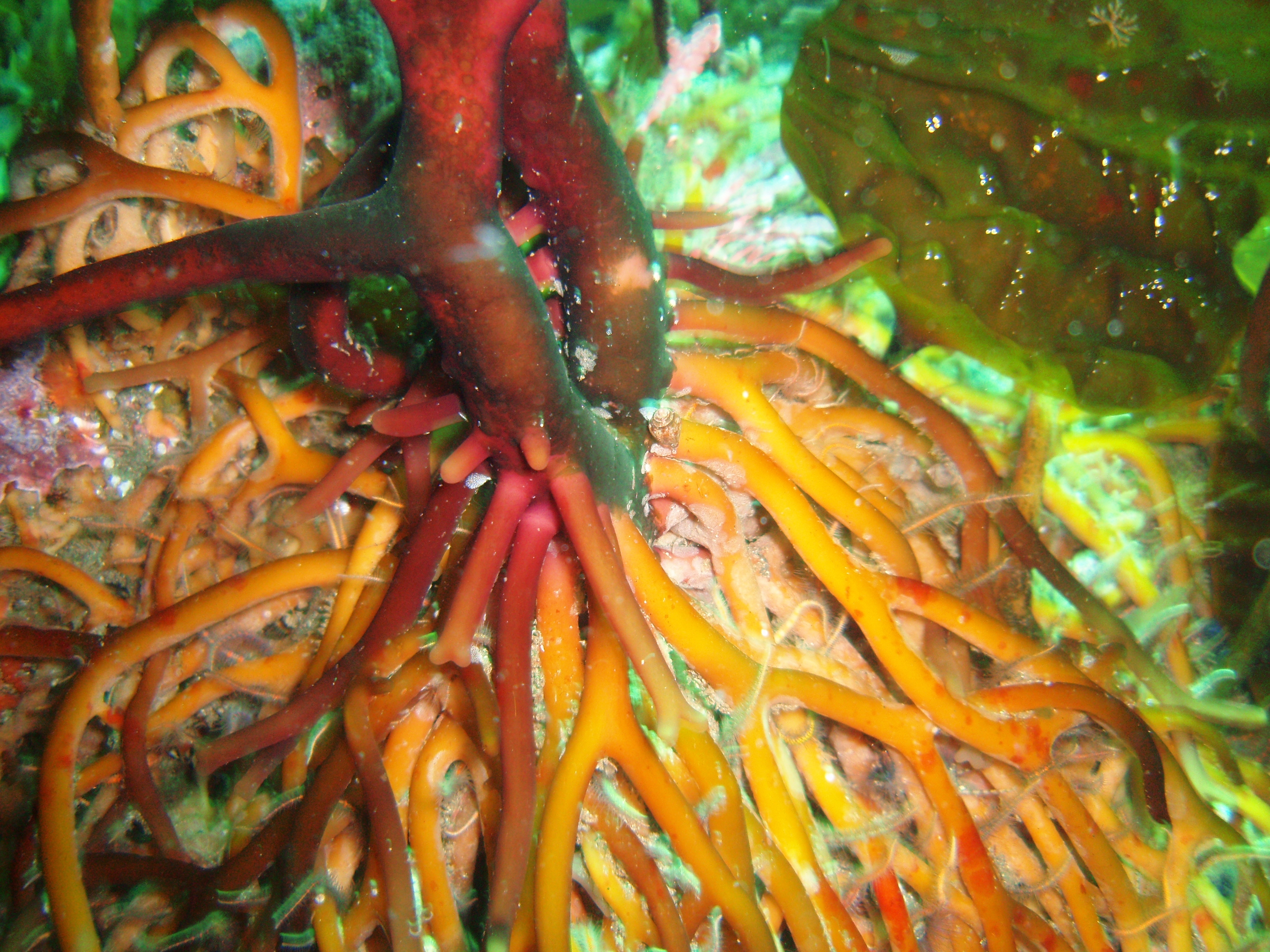 A kelp holdfast. California, Channel Islands NMS.